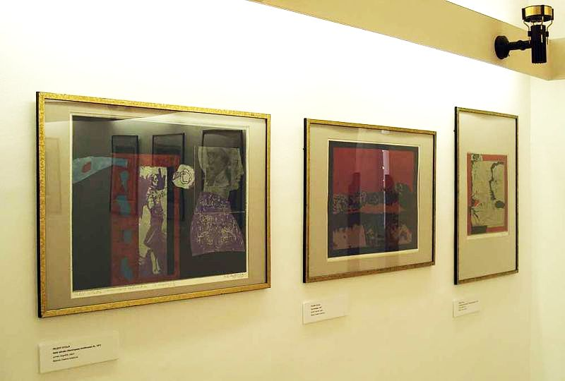 Gyula Feledy (1928) Hungarian painter, Exhibition, Feledy House, Miskolc